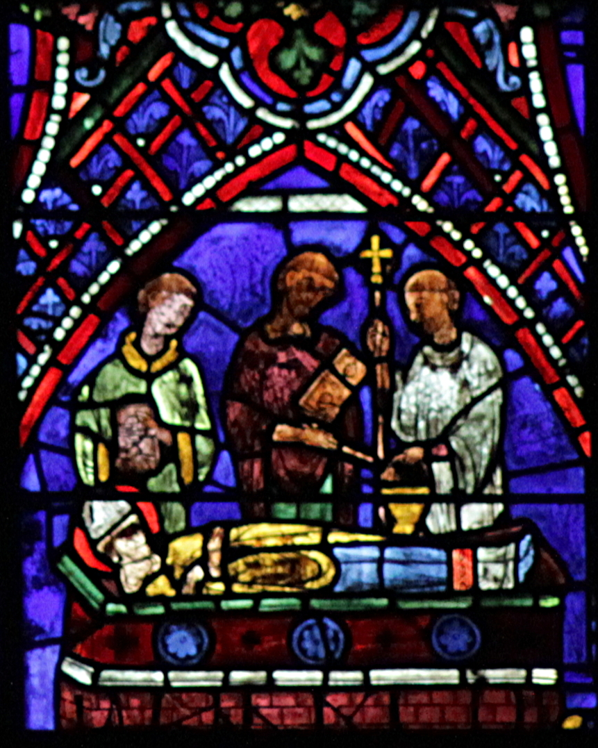 Fragment of File:Chartres 36 -Corrected.jpg - Life of St Apollinaris